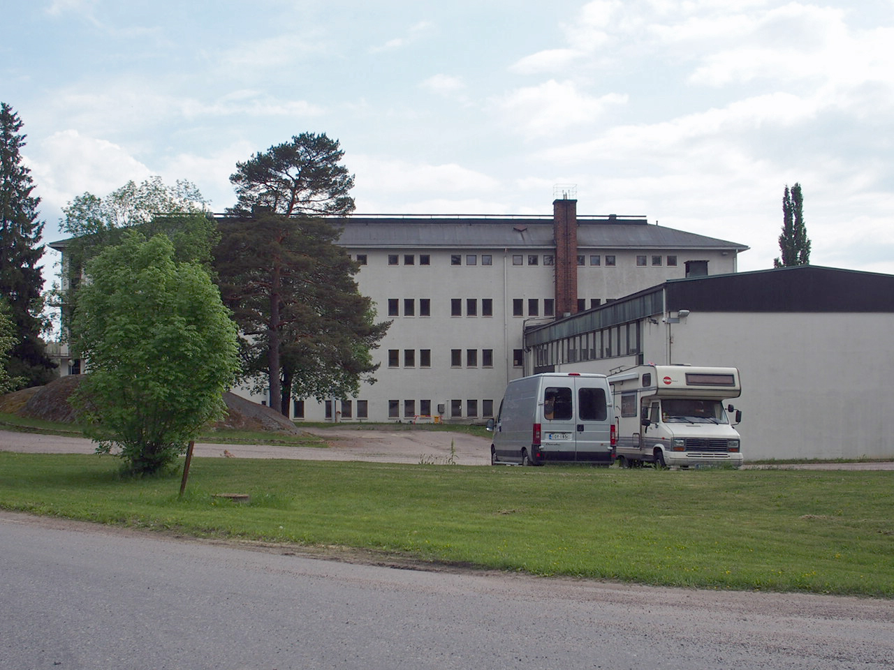 Suomen Kristillinen Yhteiskoulu (SKYK), aka Toivonlinna, an adventist boarding school in Kaarina, Finland.